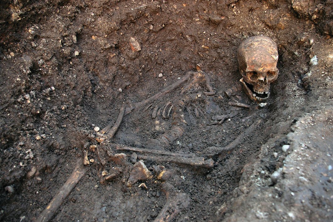 "King Richard III, an oblique view looking west." From ‘The king in the car park’: new light on the death and burial of Richard III in the Grey Friars church, Leicester, in 1485 (